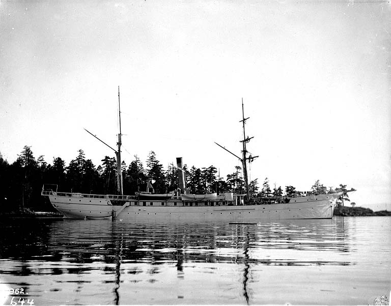 On verso of image: U.S. Bureau of Fisheries S.S. Albatross In Folder 132 Subjects (LCSH): Albatross (Schooner); Schooners--Alaska